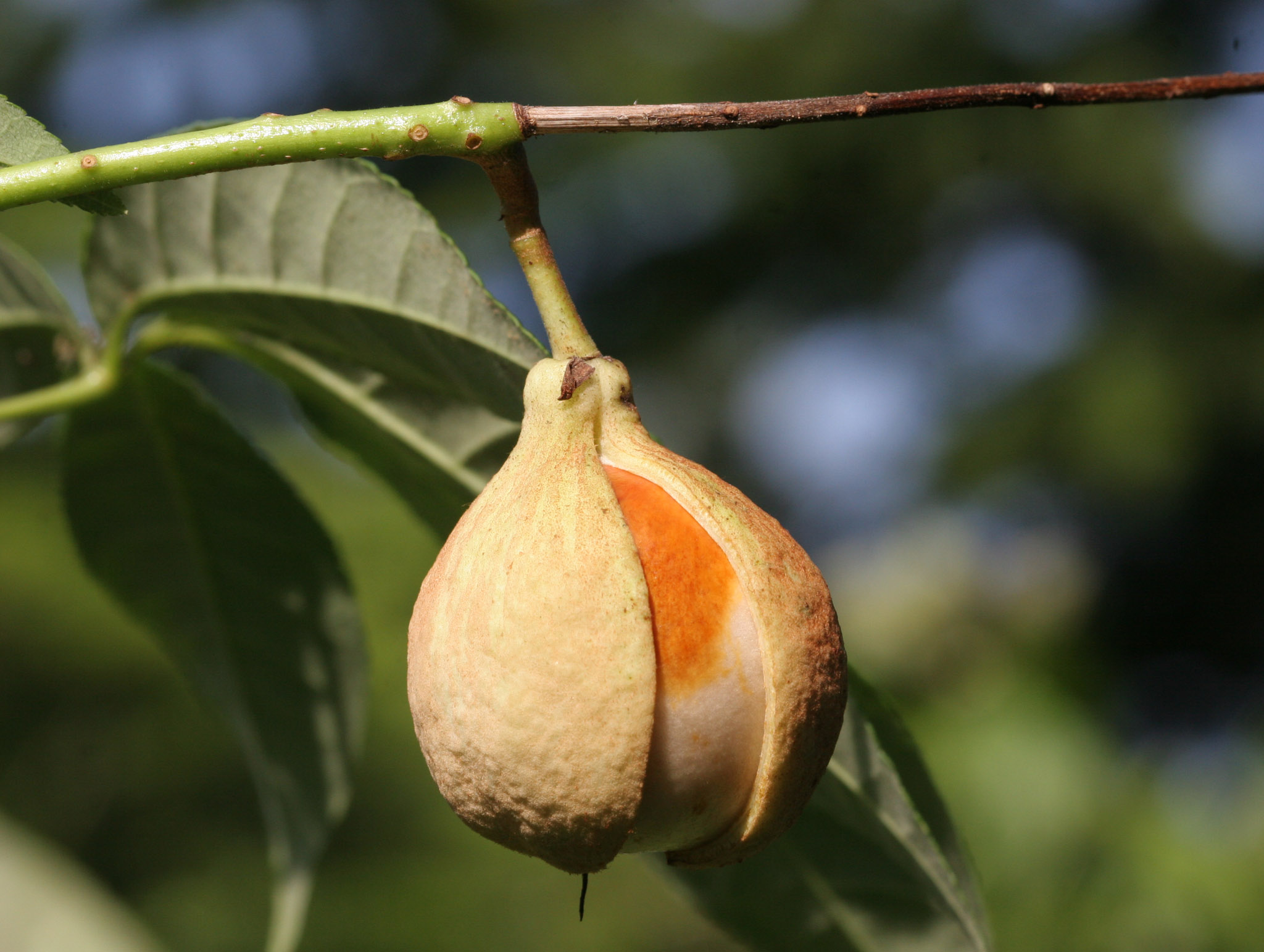 Bottlebrush Buckeye (Aesculus parviflora), located in Germany (Bensheim, Hesse), nut with shell on tree